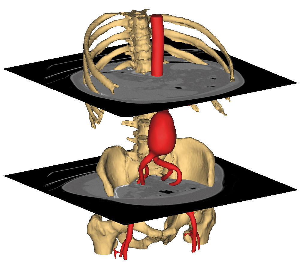 Image created myself for the commercial website of Mimics Summary Image created myself for the commercial website of Mimics